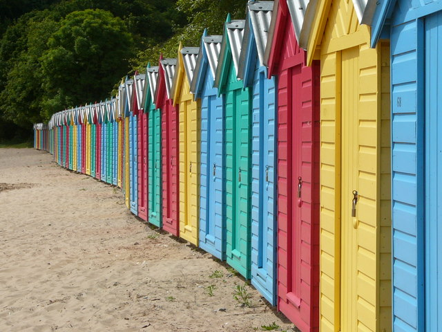 Beach huts, Llanbedrog